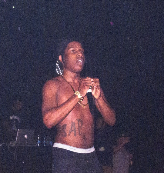 ASAP Rocky performing at Montreal's Corona Theatre, 2012